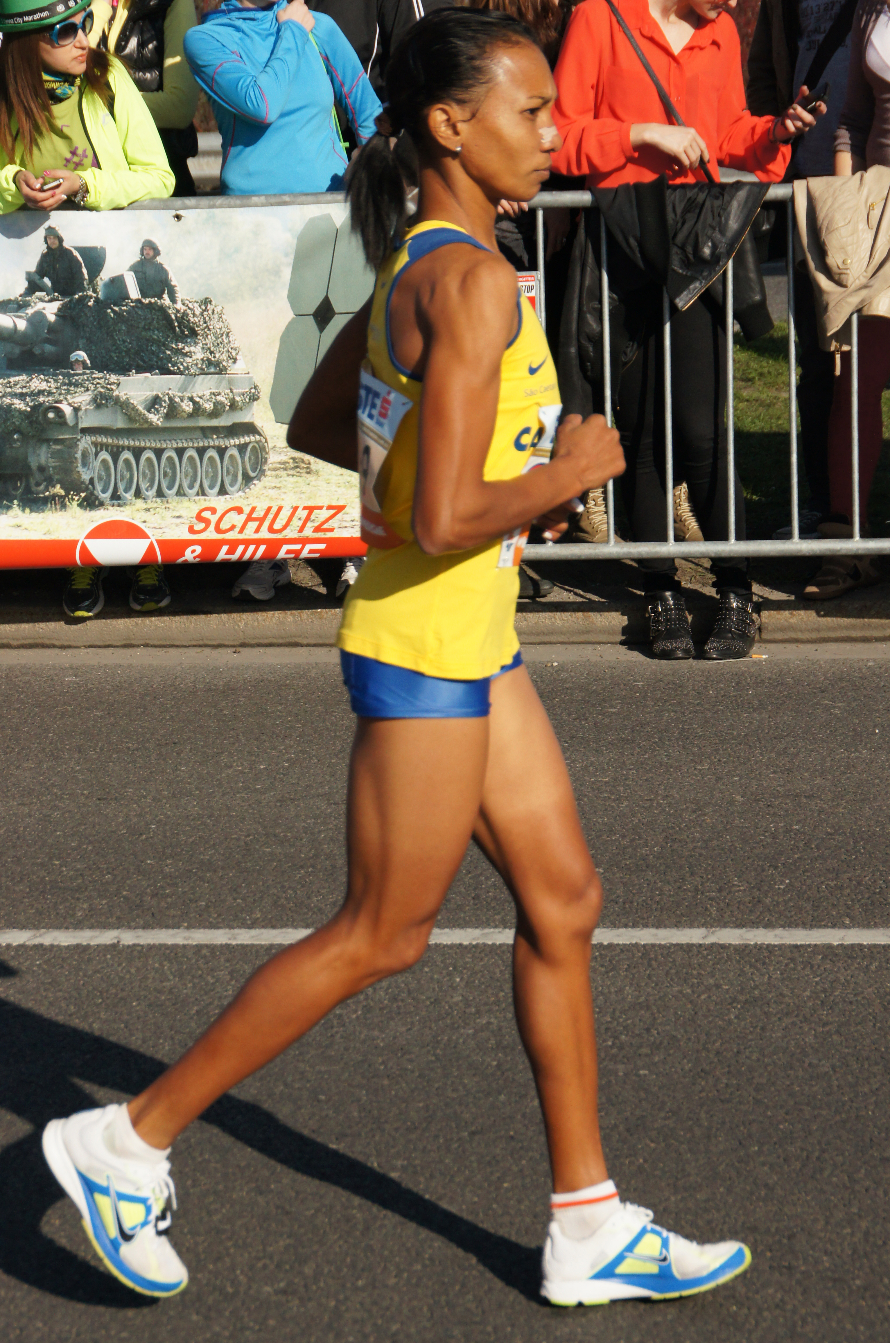 Vienna 2013-04-14 Vienna City Marathon - F9 Cruz Nonata da Silva, BRA, preparing for race c